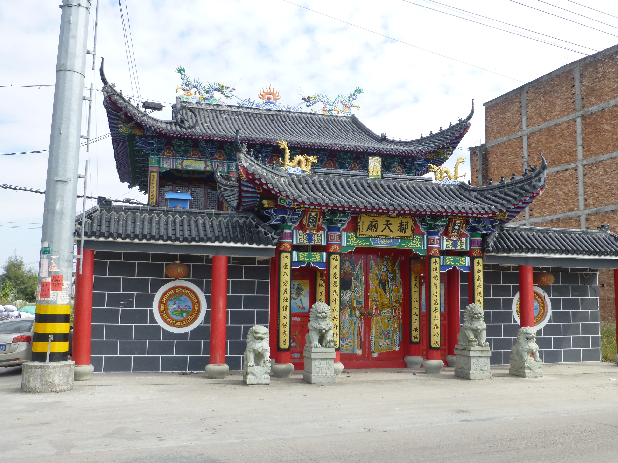 Dutianmiao, a small temple in Longgang Town, Cangnan County, Zhejiang, China 中文（中国大陆）: 位于浙江省苍南县龙港镇的都天庙